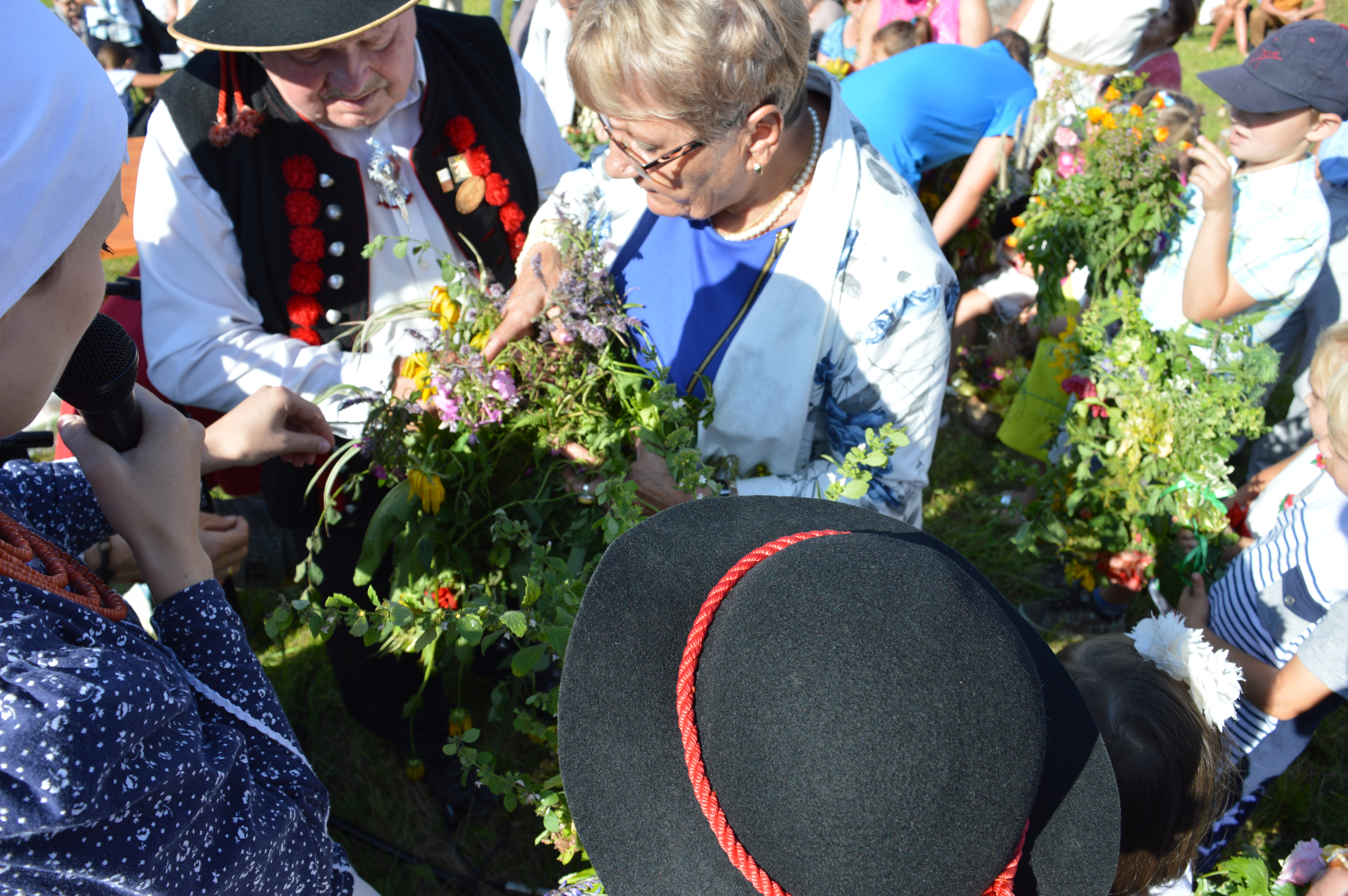 Herb and flower bouquet competition during the open-air ceremony of the Ascension of Virgin Mary in Ujsoły